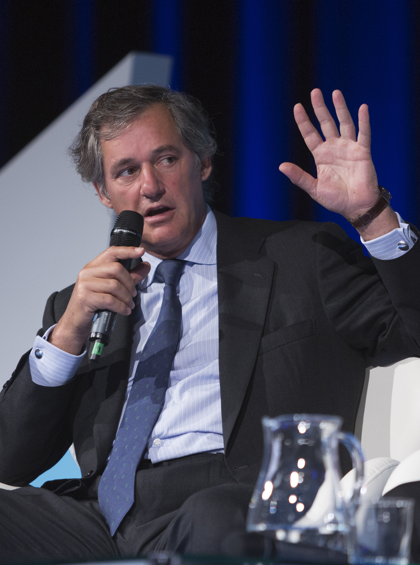 Dr. Andrew Steer Chief Executive Officer World Resources Institute; Hamid Tawfiki Member of the climate finance group for the Moroccan presidency Cop22; John Roome Senior. Director Climate Change World Bank Group; José Manuel Entrecanales Domecq Chief Executive Officer Acciona S.A.